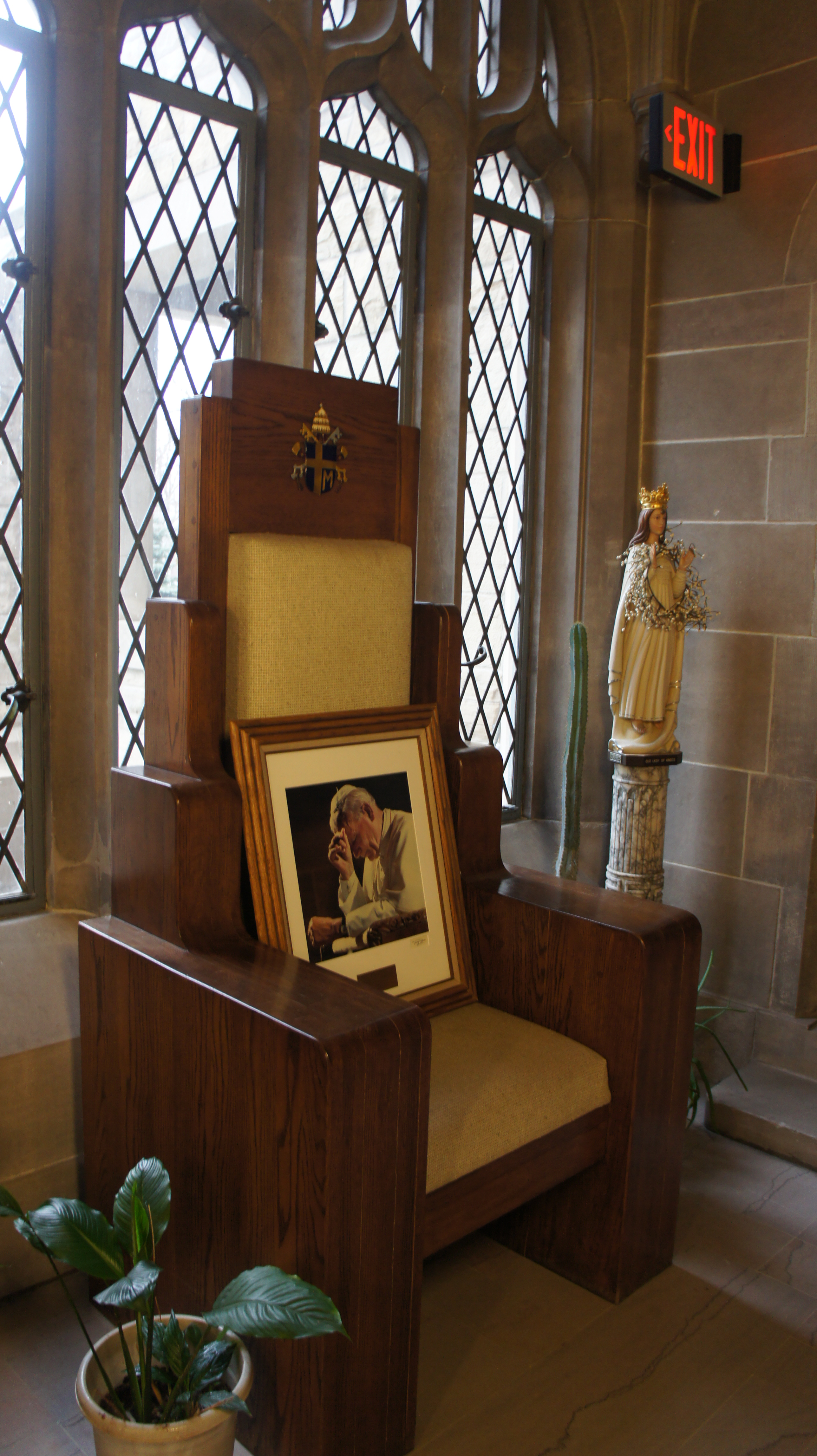 Papal Throne - Cathedral Of The Blessed Sacrament, Detroit